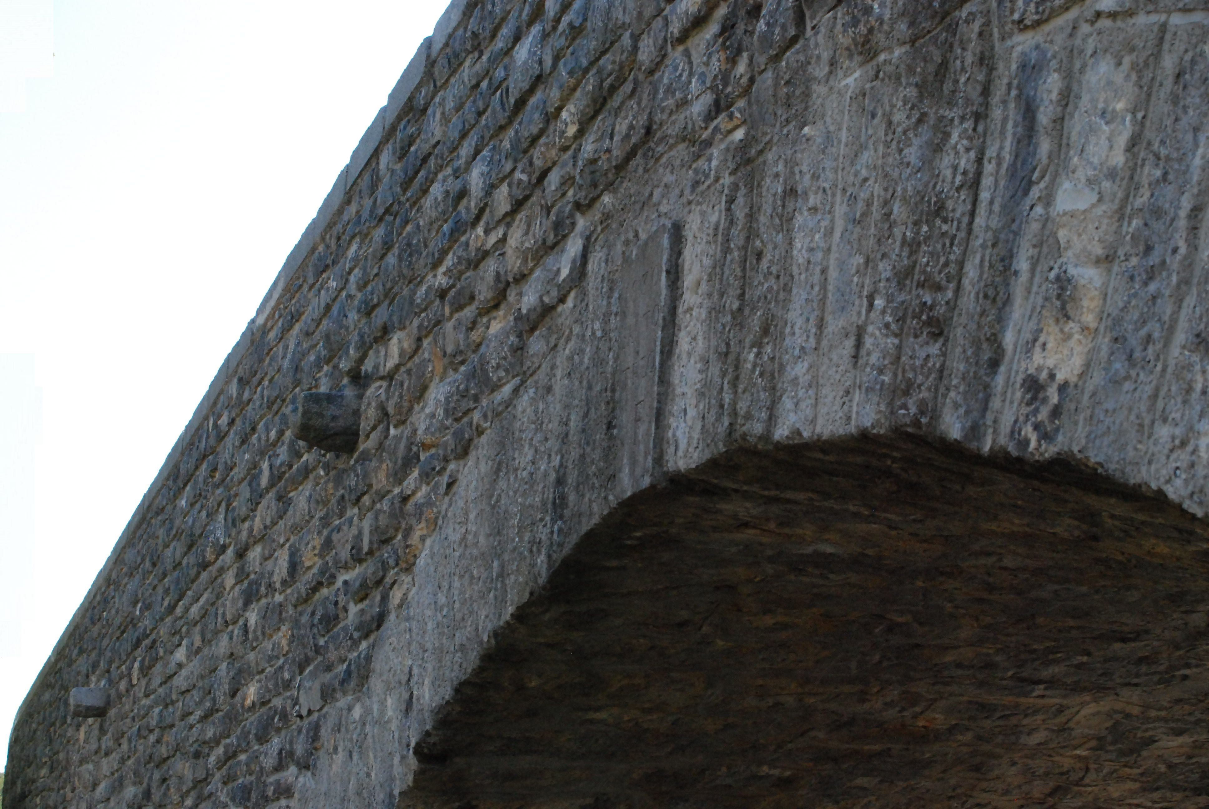 View of the main road bridge over Bistrica Creek in Bistrica, Municipality of Šentrupert, Slovenia. The bridge was built in 1830. A detail of the central arch. The headstone bears the inscription: "1830. Santo Treo. F." Santo Treo Jr. ('F' signifies filius, son) was the lord of the manor in Knežja Vas, a politician and Mayor of Dobrnič at the time.